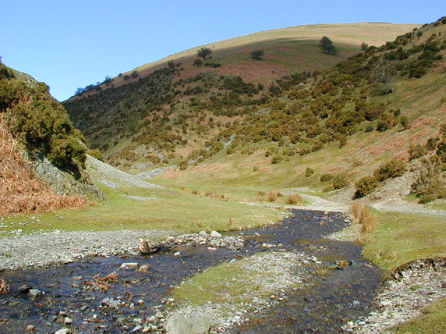 Ashes Hollow. Looking upstream - tributary entering from the right - possible cone to the left - valley is perceptably narrowing.